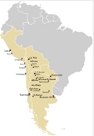 Countries which the Dakar Rally has been through 2009-2018 since it was moved from the previous Paris-Dakar route due to security concerns. Cities included are major start/end points. Based on official route maps.